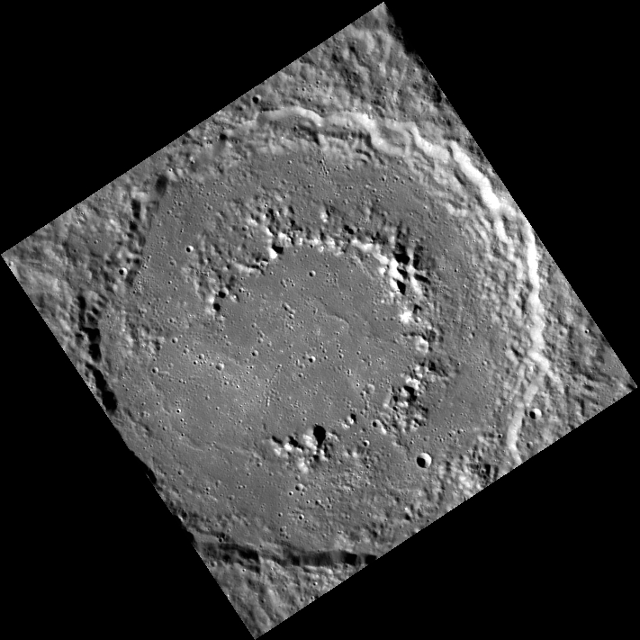 Date acquired: December 14, 2011 Image Mission Elapsed Time (MET): 232373246 Image ID: 1136317 Instrument: Wide Angle Camera (WAC) of the Mercury Dual Imaging System (MDIS) WAC filter: 7 (748 nanometers) Center Latitude: 58.43° Center Longitude: 231.7° E Resolution: 250 meters/pixel Scale: The basin's main ring is about 126 km (78 mi.) in diameter. Incidence Angle: 71.5° Emission Angle: 0.5° Phase Angle: 71.0° Of Interest: Today's image is a view of Ahmad Baba, a classic mercurian peak-ring basin. Ahmad (Ahmed) Baba was a West African writer who lived from 1556-1627. The Malian city of Timbuktu is home to the Ahmed Baba Institute, a library and research center named in his honor. The Institute is home to over 18,000 ancient manuscripts. This image was acquired as part of MDIS's 8-color base map. The 8-color base map is composed of WAC images taken through eight different narrow-band color filters and covers more than 99% of Mercury's surface with an average resolution of 1 kilometer/pixel. The highest-quality color images are obtained for Mercury's surface when both the spacecraft and the Sun are overhead, so these images typically are taken with viewing conditions of low incidence and emission angles.